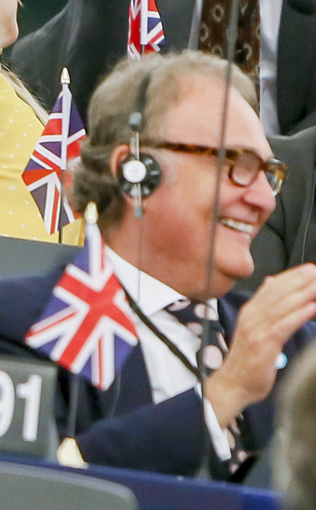 Henrik Overgaard-Nielsen giving a high five to Alexandra Lesley Philips during the Constitution of the 9th legislature of the European Parliament